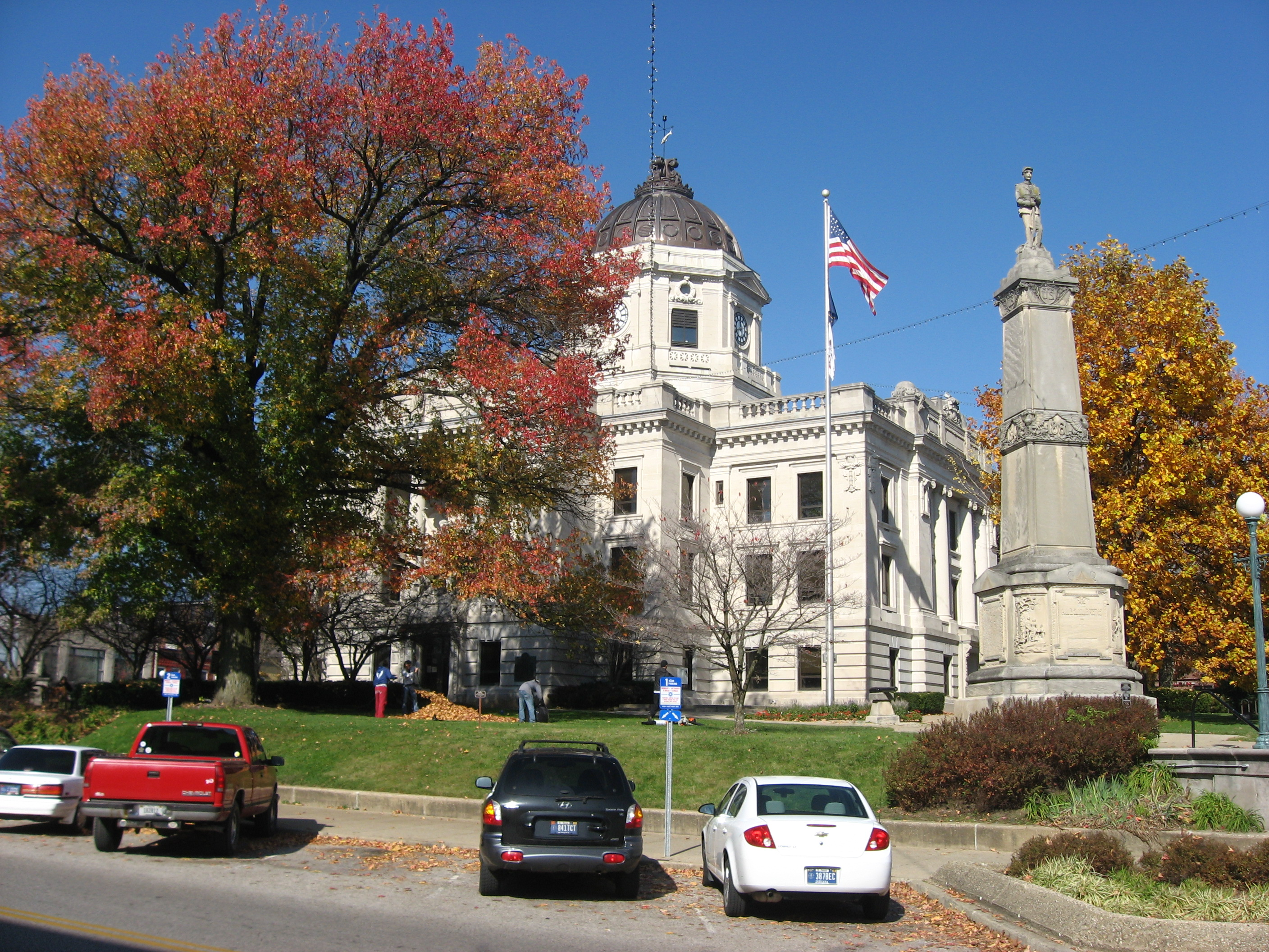 Southern front and eastern side of the Monroe County Courthouse, located on Courthouse Square in downtown Bloomington, Indiana, United States. Built in 1910, it is listed on the National Register of Historic Places, and it is part of the Register-listed Courthouse Square Historic District.